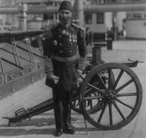 An Ottoman commander of the Imperial Ironclad Fleet, posing with a ships landing party four-barrel Nordenfelt gun.